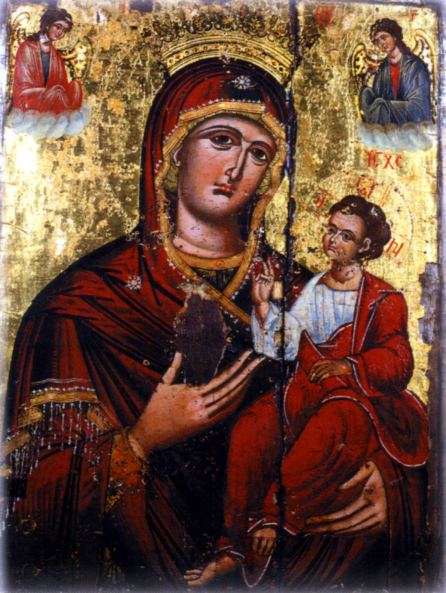 Panagia Goumenissa Icon